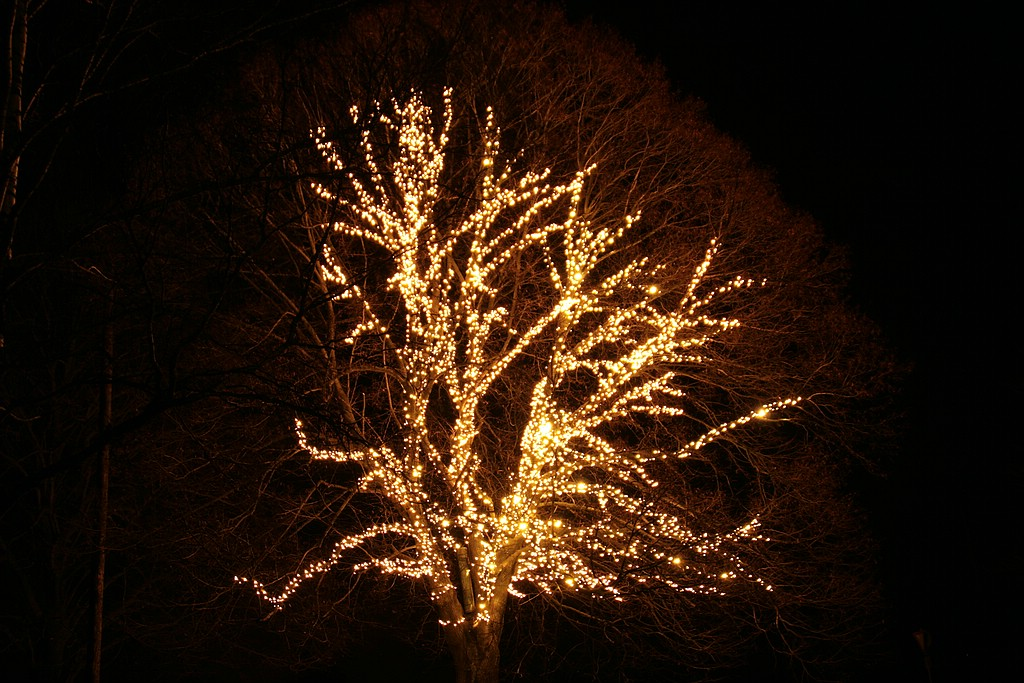 lit tree at night